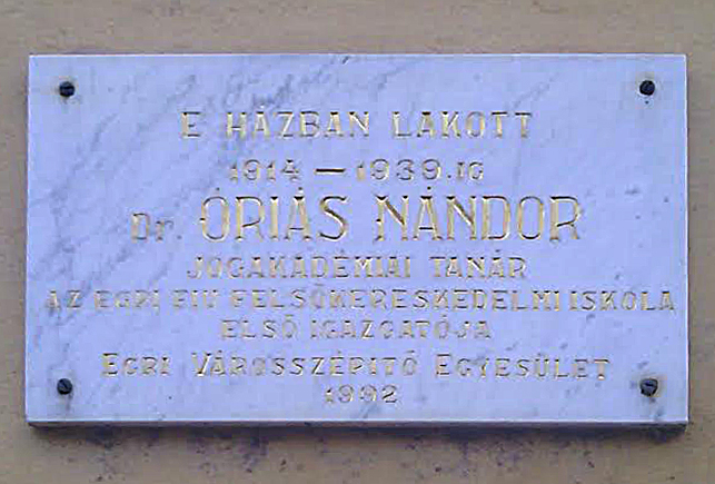 Óriás Nándor (teacher) (Archiepiscopal Palace, Eger)